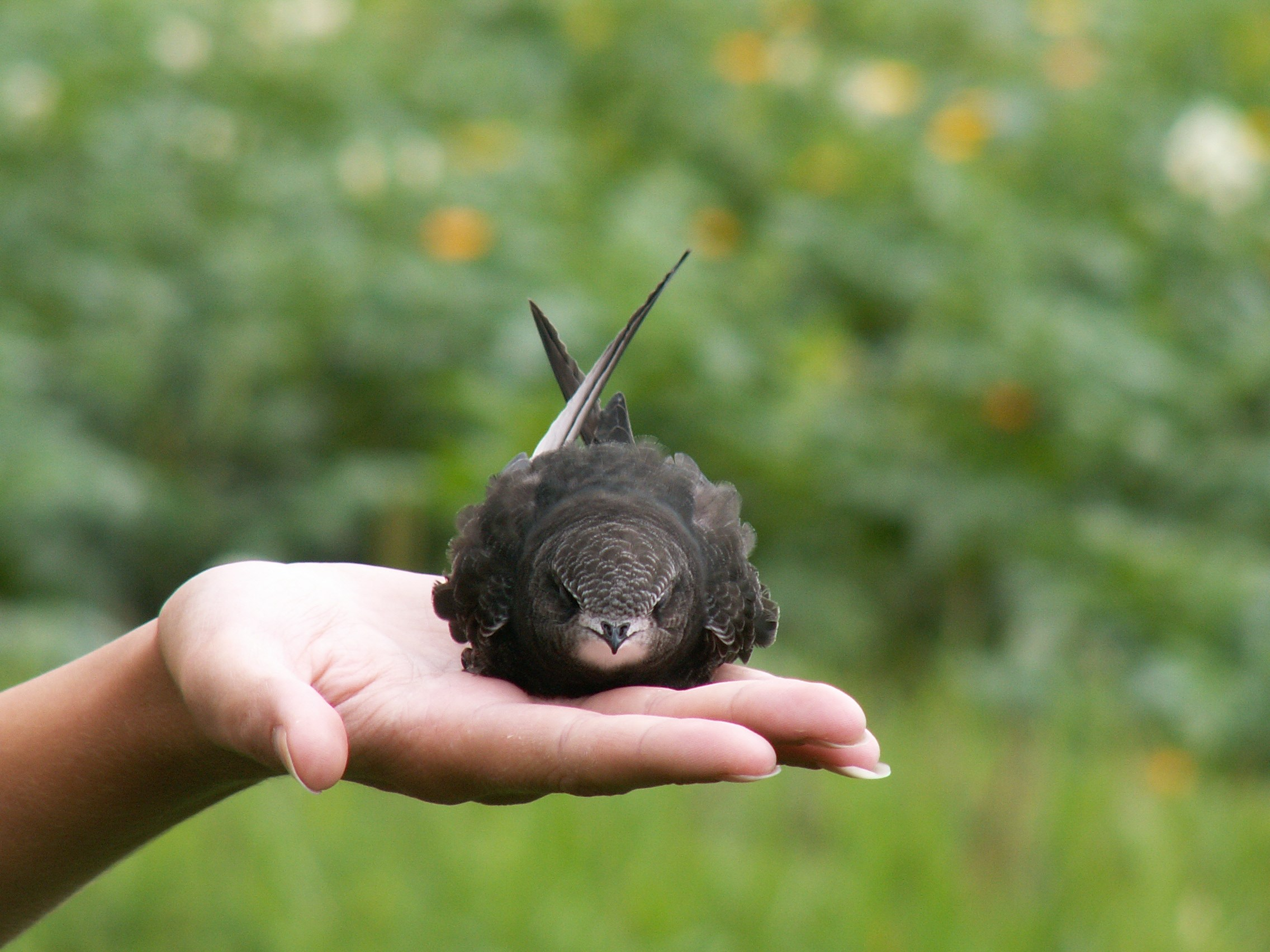 Common swift in palm